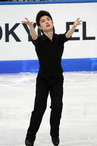 2012 World Junior MFS Yan Han